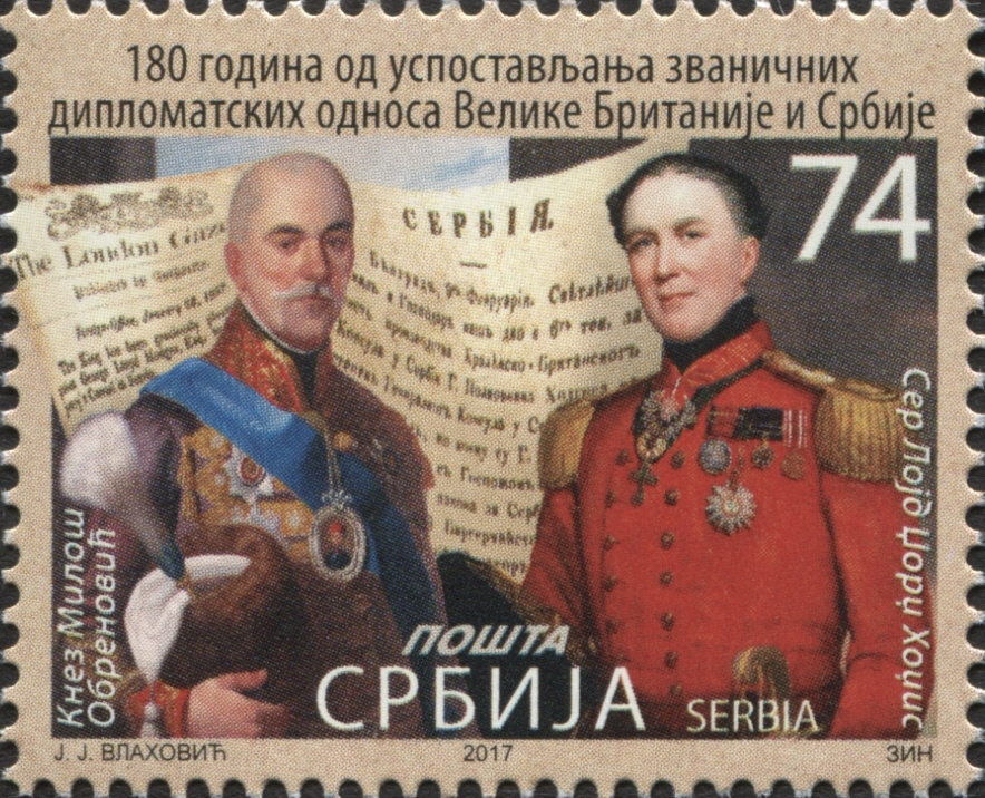 180 years anniversary of Serbia–United Kingdom relations, 2017 post stamp of Serbia